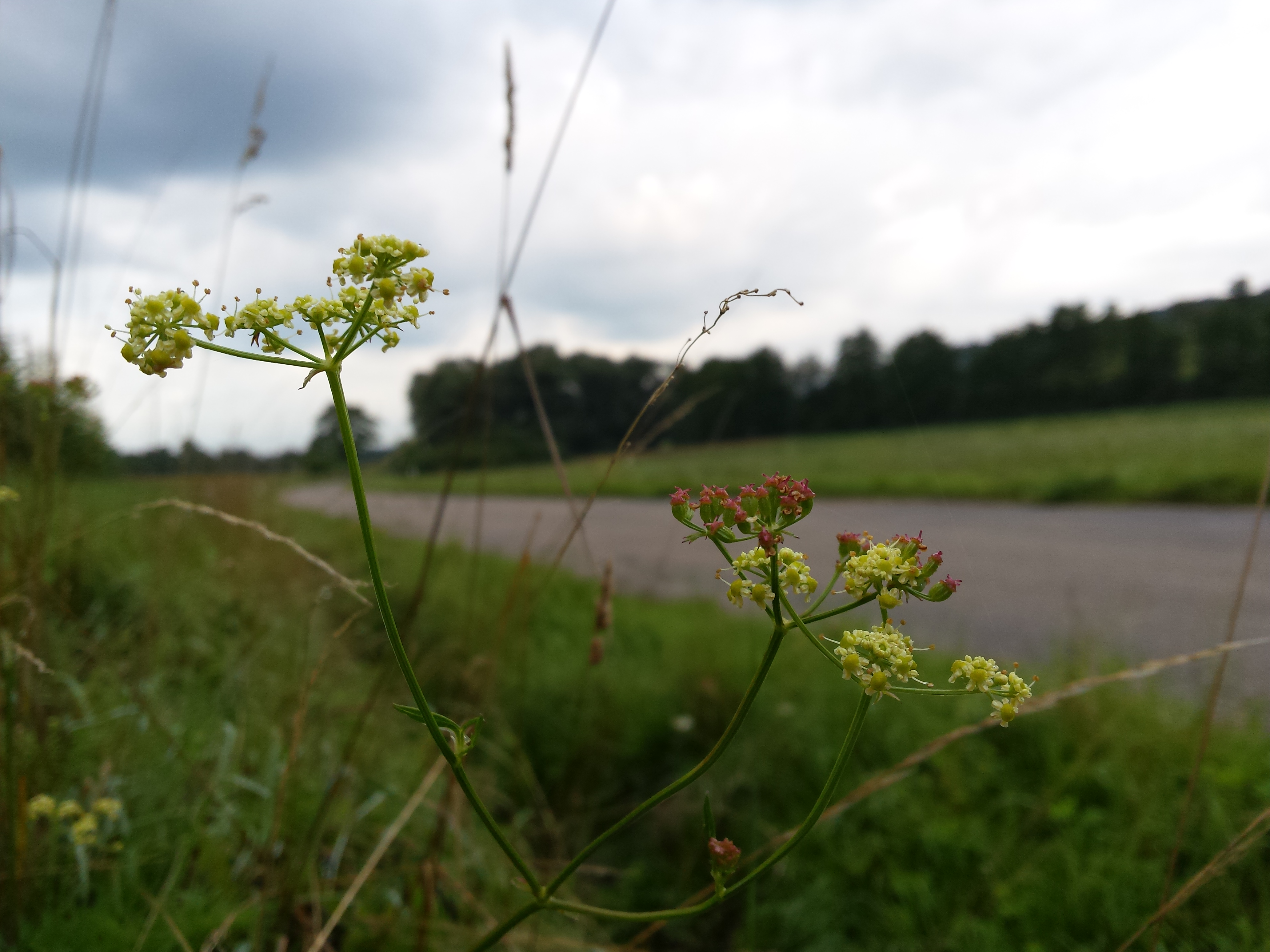 caraway milk parsley